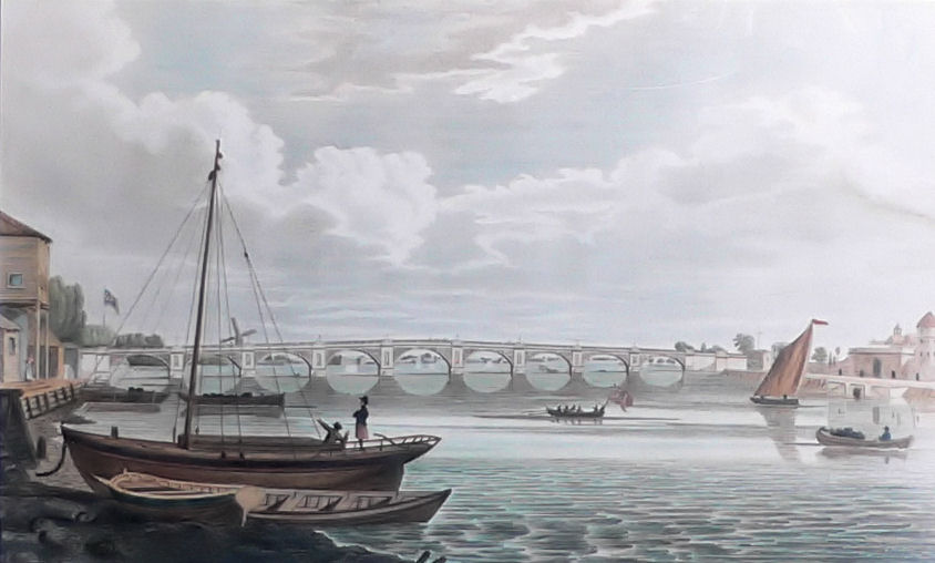 The bridge was later renamed to Vauxhall Bridge.[1] On the right can be seen part of Millbank Penitentiary under construction.